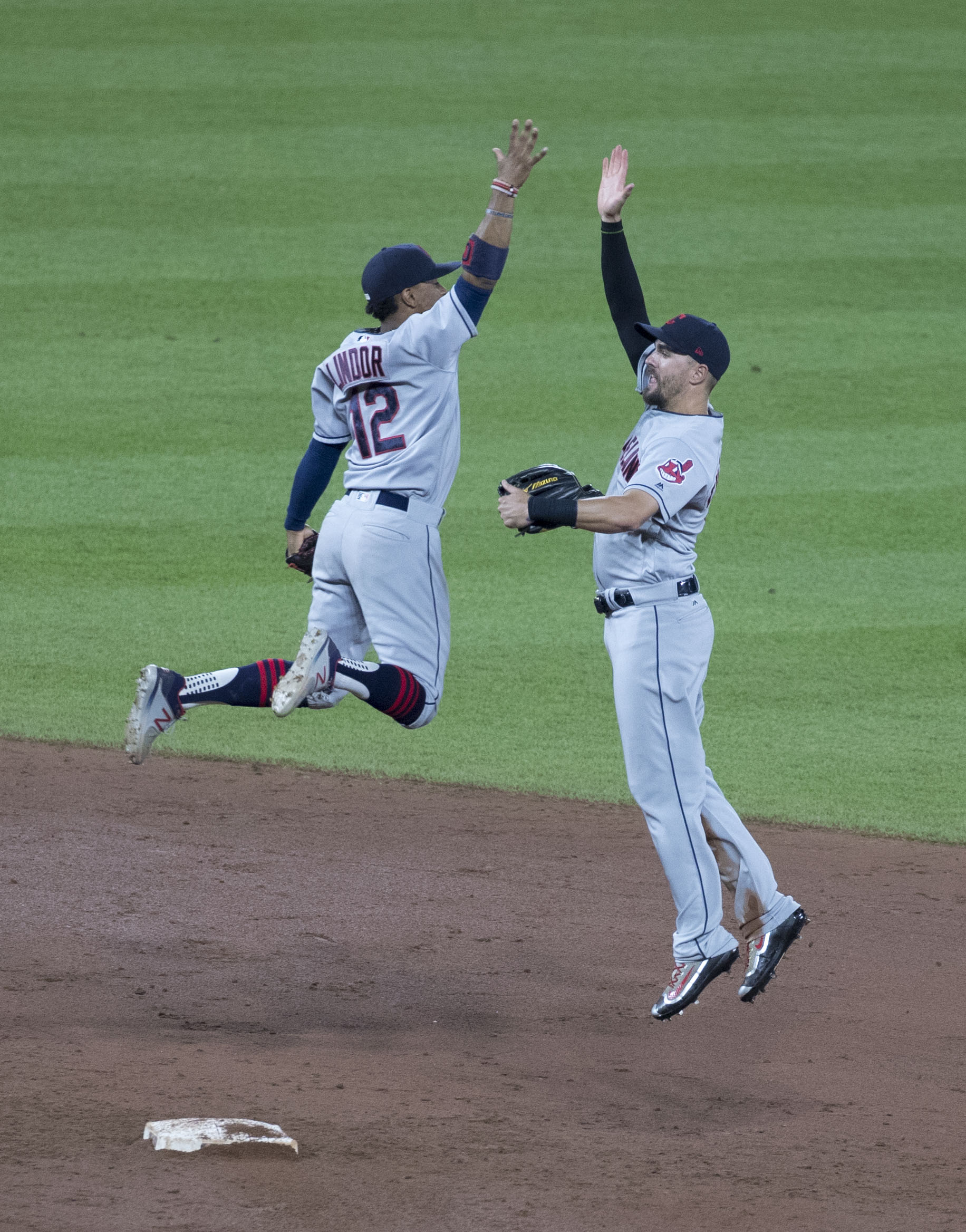 Francisco Lindor and Lonnie Chisenhall of the Cleveland Indians celebrate a win over the Baltimore Orioles at Oriole Park at Camden Yards on June 21, 2017 in Baltimore, Maryland.